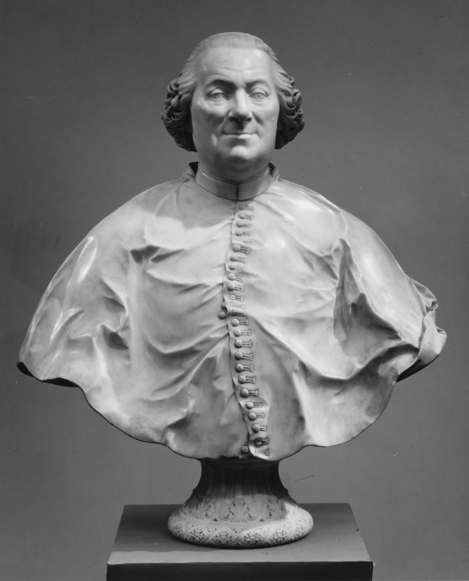 French, carved in Rome; Bust; Sculpture